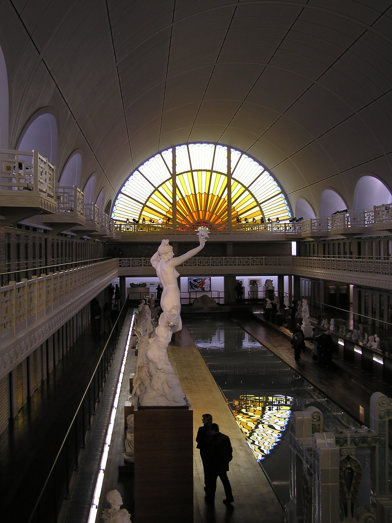 The former pool area of the Musée d'art et d'industrie ("La Piscine") in Roubaix, France.